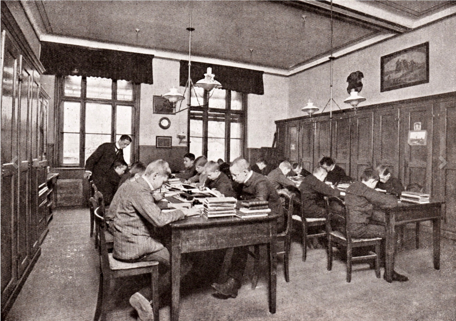 New boarding school building of Herrnhuter Brüdergemeine (= Moravian Church) in Niesky, Upper Lusatia, Germany. The picture shows the pupil's working hours supervised by a teacher.